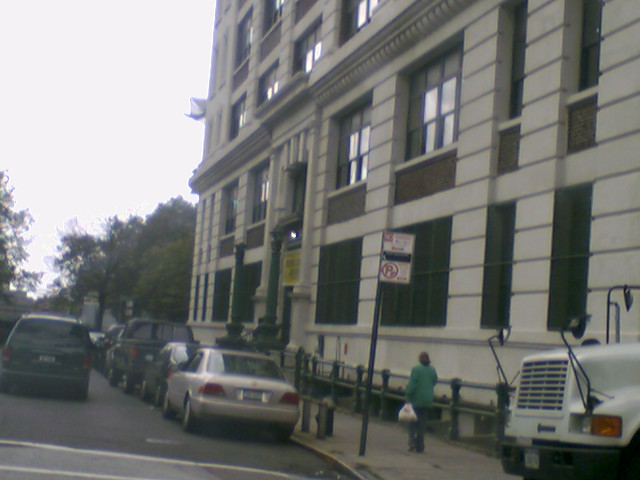 The building on the Nassau Street in Downtown Brooklyn